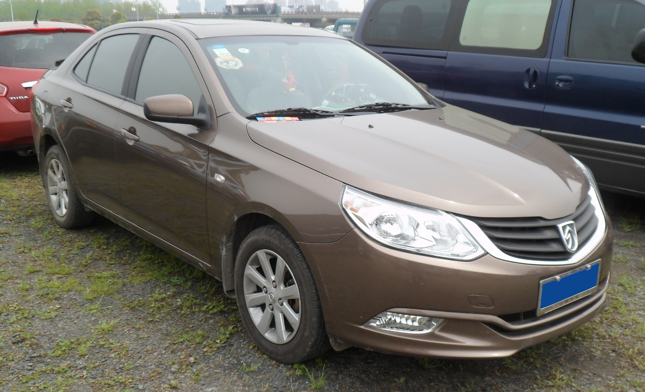 Baojun 630 photographed in Anting, Shanghai municipality, China.